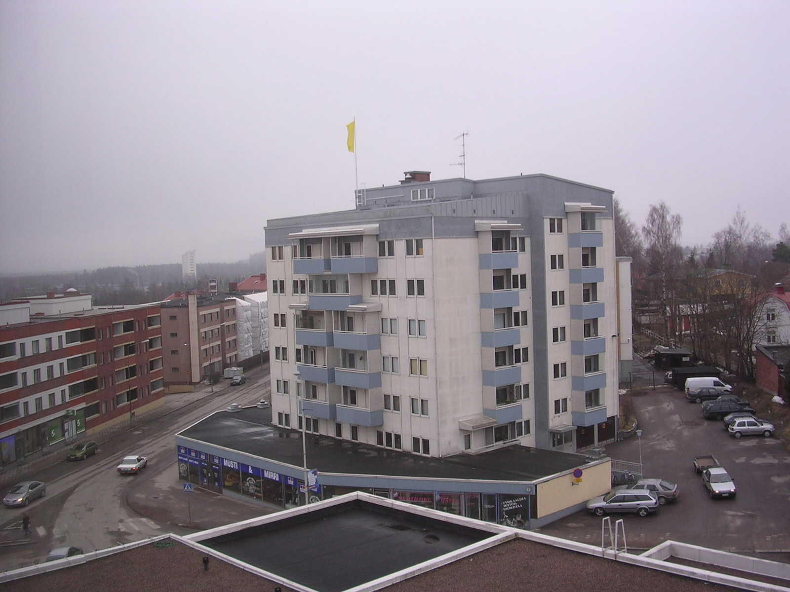 Riihimäki, view from the hotel